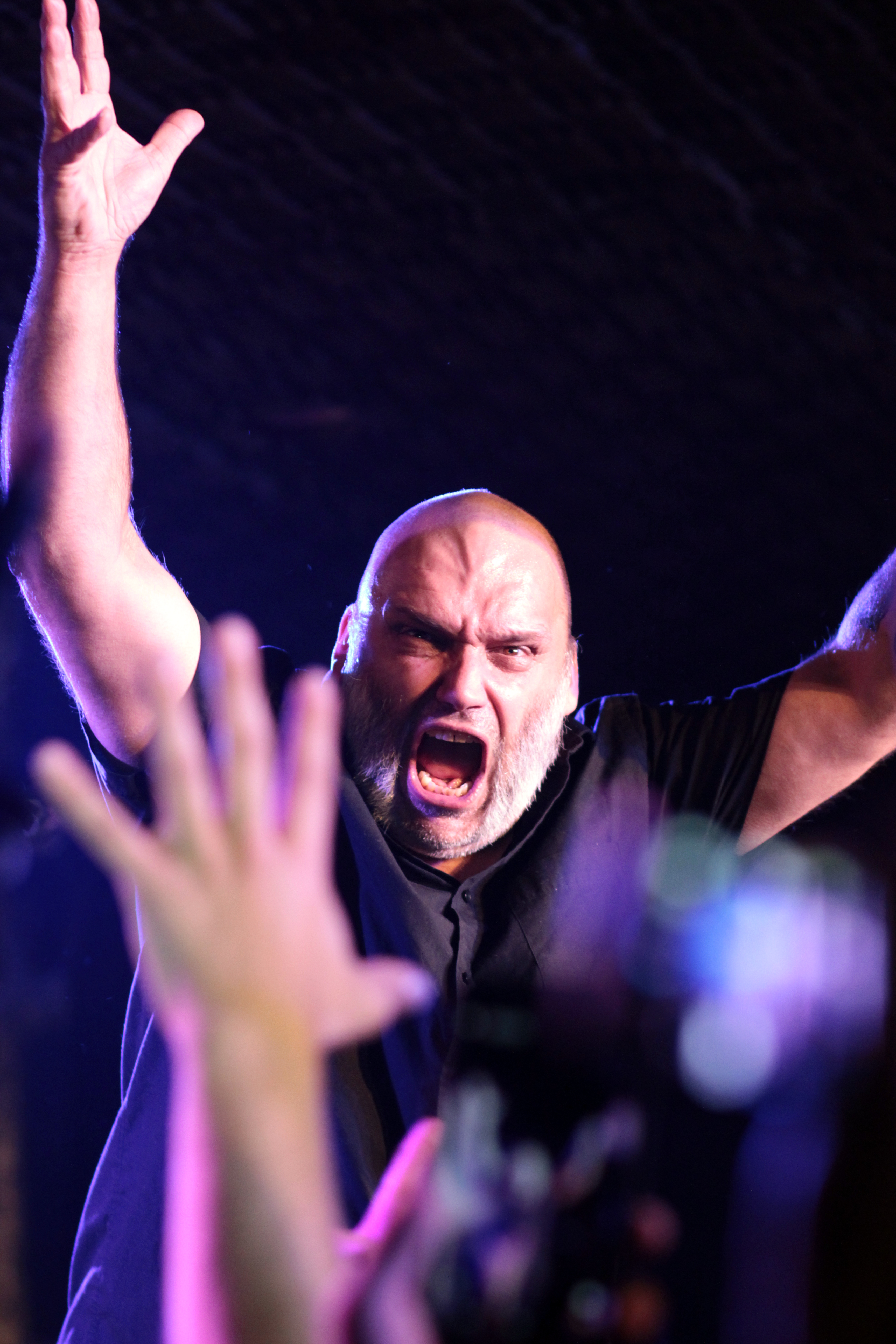 Blaze Bayley - Santiago, Chile 2016.